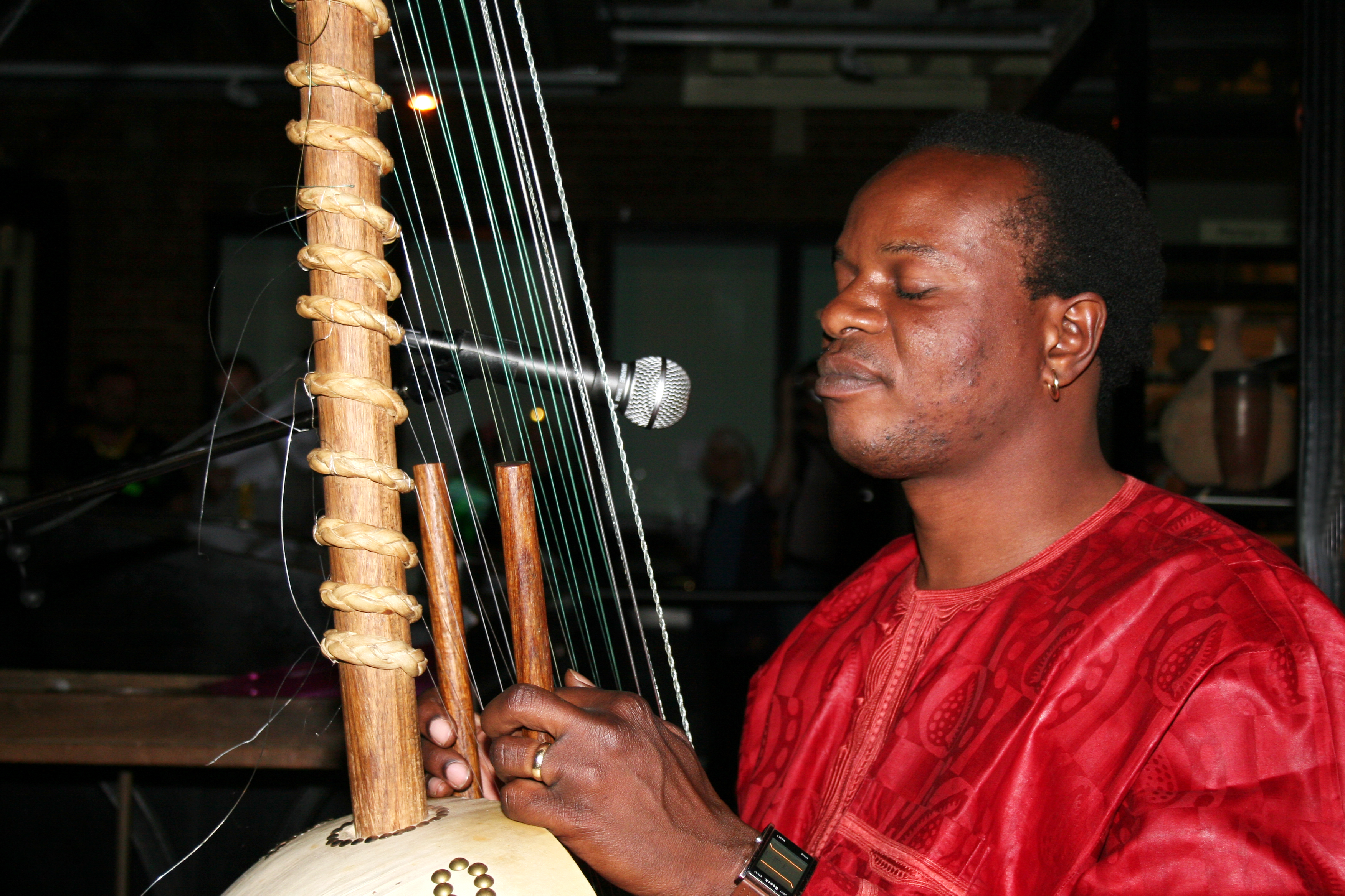 "Jali Fily Sissokho, a Mandinka kora player from Senegal. Performance in the Pitt Rivers Museum"